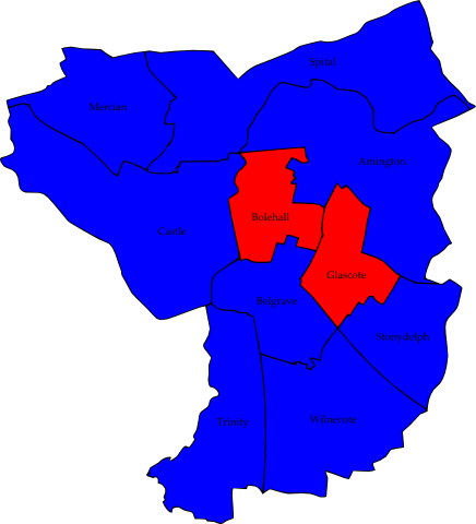 A map of the results of the 2006 Tamworth Council election. Colour legend by wards won: Conservative party Labour party